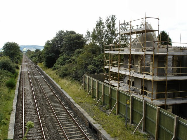 The Belfast-Dublin line at Adavoyle The disused station at Adavoyle is now being renovated and will be used as a dwelling house. It is a listed building with an interesting history.